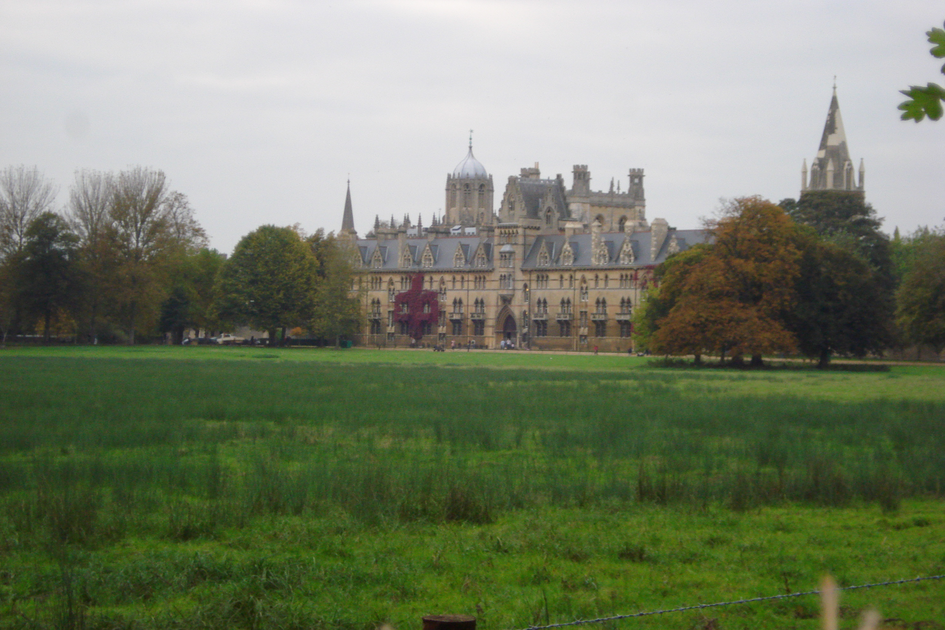 View of Christ Church, Oxford across Christ Church Meadow from bank of the River Cherwell